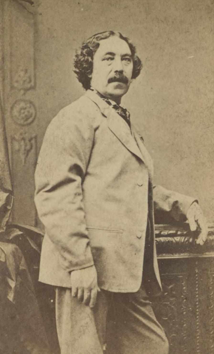 A portrait from the Welsh Portrait Collection at the National Library of Wales. Depicted person: Sims Reeves – British opera singer